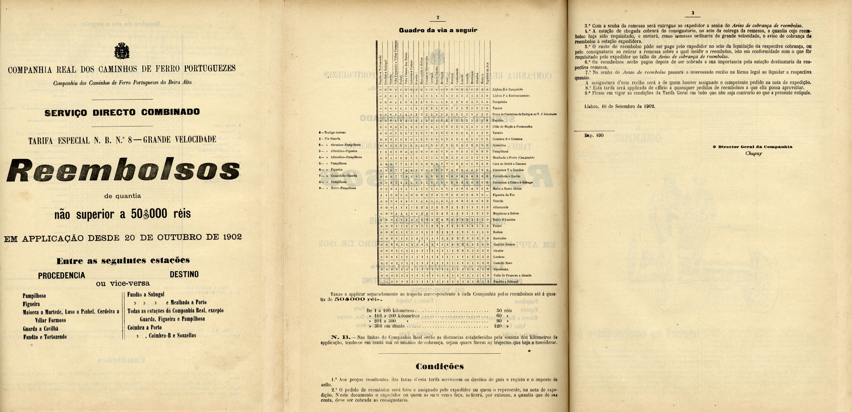 Announcement of the Companhia Real dos Caminhos de Ferro Portugueses (Royal Company of the Portuguese Railways), in combination with Companhia dos Caminhos de Ferro Portugueses da Beira Alta (Portuguese Railways of the Beira Alta Company), showing the special tariff n.º 8, for refunds. This image was published on the Gazeta dos Caminhos de Ferro magazine no. 356, of the 16th October 1902, and scanned by the Hemeroteca Municipal de Lisboa.